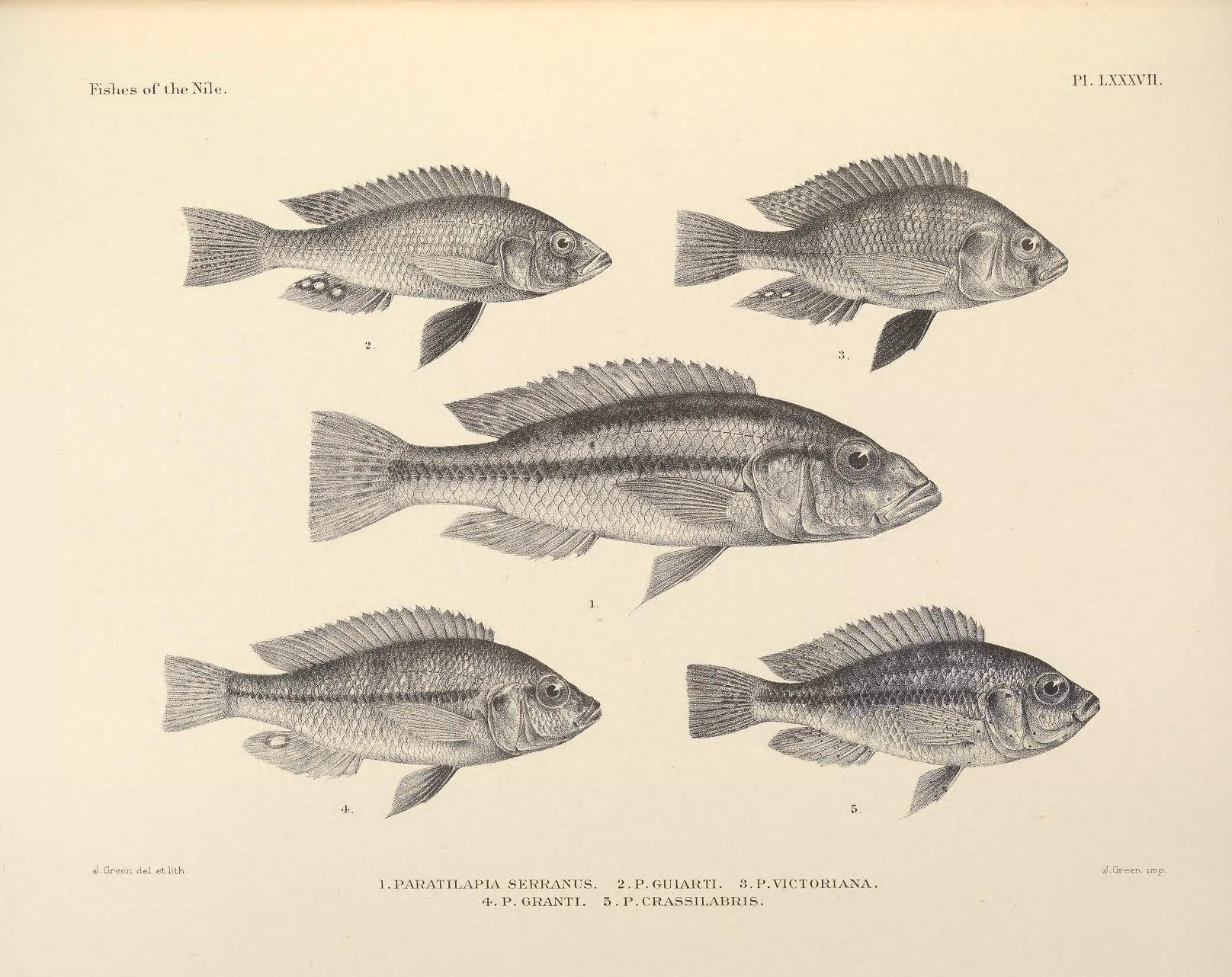 1. Haplochromis serranus, 2. Haplochromis guiarti, 3. Haplochromis victorianus, 4. Haplochromis granti, 5. Haplochromis crassilabris